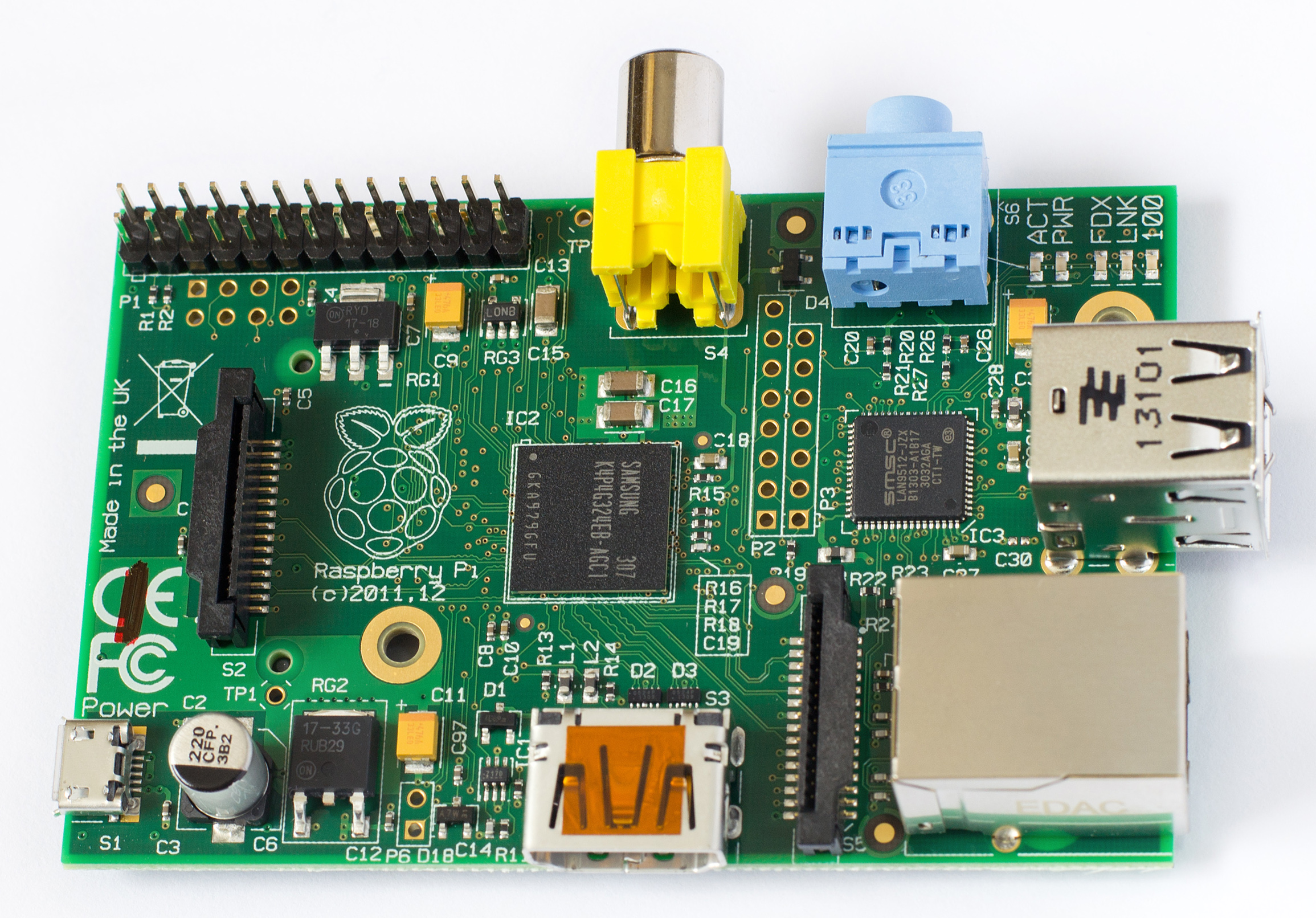 Raspberry Pi Model B Rev. 2. (This is a rotated and cropped version of Tors' original photograph)